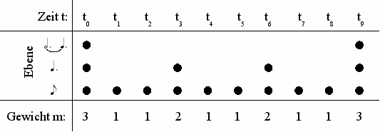 Metric hierarchy, ternary division